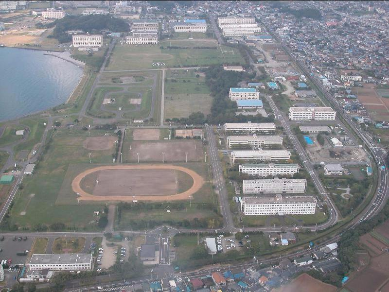 camp takeyama,yokosuka kanagawa.